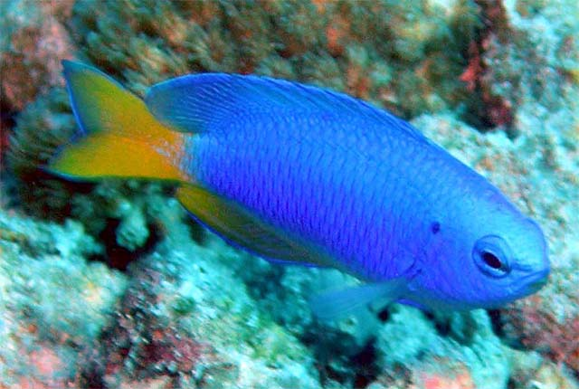 Goldbelly Damsel (Pomacentrus auriventris), Pulau Aur, West Malaysia